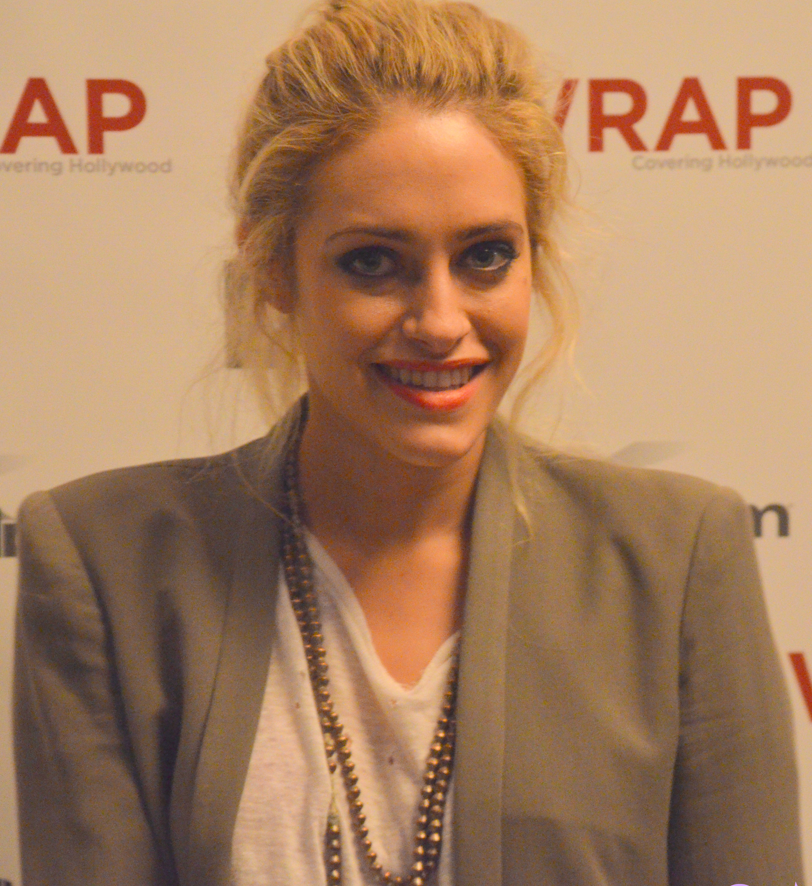 Carly Chaikin 2012